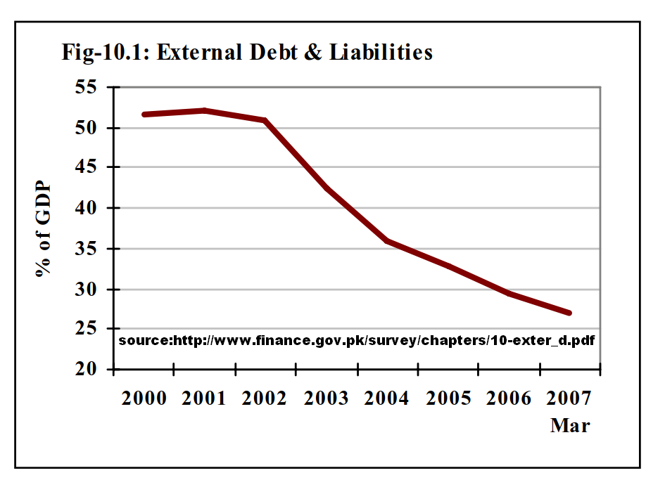 GDP & DEBT, FROM 2000 TO 2007, AS PER OFFICIAL WEBSITE OF GOVERNMENT OF PAKISTAN